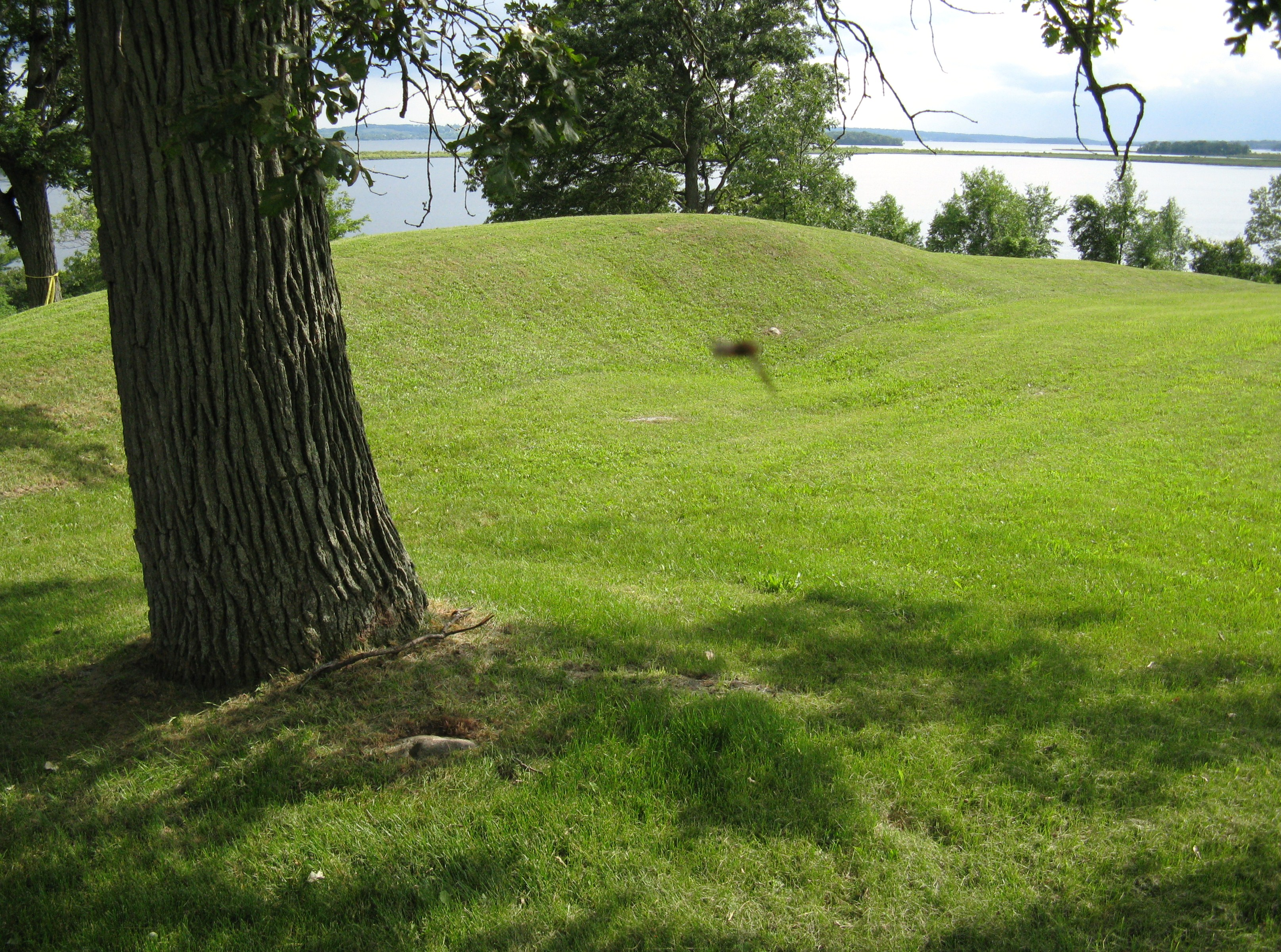 Serpent Mounds National Historic Site, Keene, Ontario Other information If used outside Wikipedia, attribute to Yoho2001.